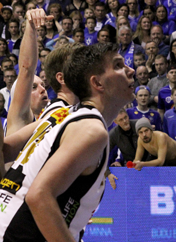 Stjarnan's Jeremy Martez Atkinson (14) and KR's Finnur Atli Magnússon watching a free throw attempt by Justin Shouse during the 2015 Icelandic Men's Basketball Cup.